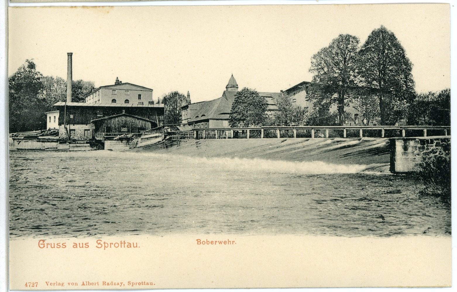 This postcard is from publisher Brück & Sohn in Meißen ( This postcard has a unique number 04727 and is available in a higher resolution at the publisher. This images was uploaded in a cooperation project between Wikipedians and the publisher.